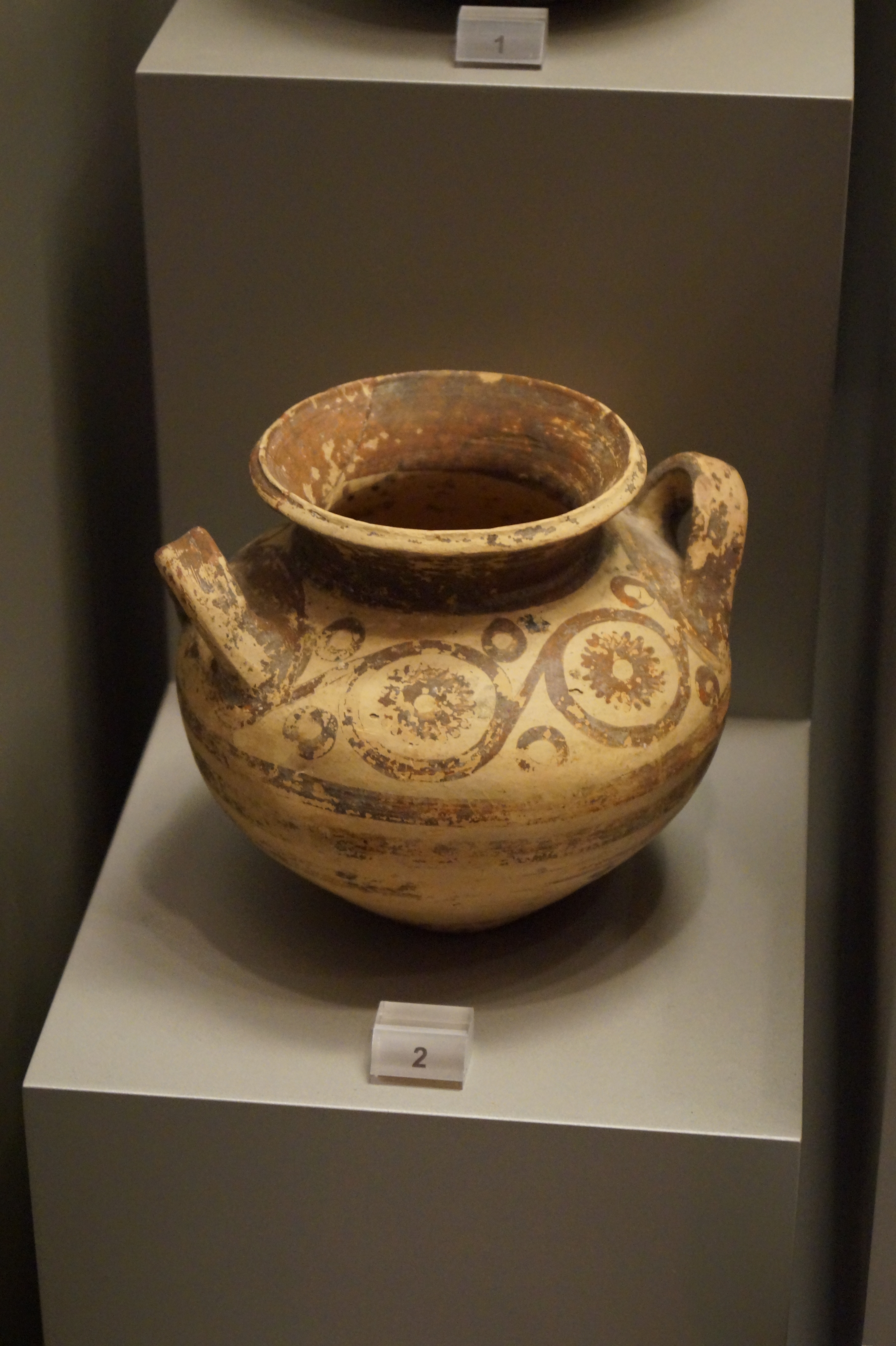 National Archaeological Museum of Athens: Two-handled amphoriskos from Prosymna (NAMA 6667, LH I, 16th century BC)